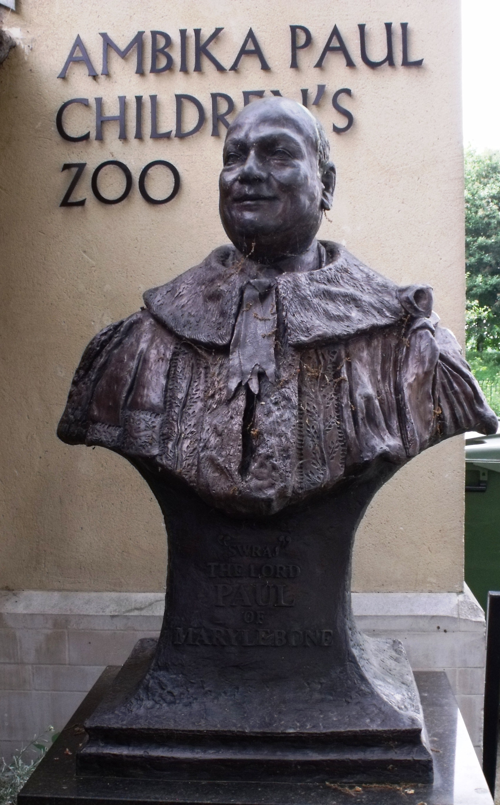 More shots from Animal Adventure at London Zoo. This is a hands on area for kids. You can touch the animals, but you have to wash you hands afterwards (I was not going to touch any animal, so no need to wash hands here - got photos to take of the animals). At London Zoo - this area is Animal Adventure. An area that was opened in 1994 thanks to a donation from the family of the late Ambika Paul of one million pounds. The four year old Ambika died in 1968, but loved going to the Zoo during her short life. Yet another object to do with the Paul family. This is a bust of the head of the Paul family - Swraj. The Lord Paul of Marylebone. Father of the late Ambika Paul. The bust was placed her on Swraj's 70th birthday in 2001. Wikipedia page on Swraj Paul. It is in front of the Ambika Paul Children's Zoo.